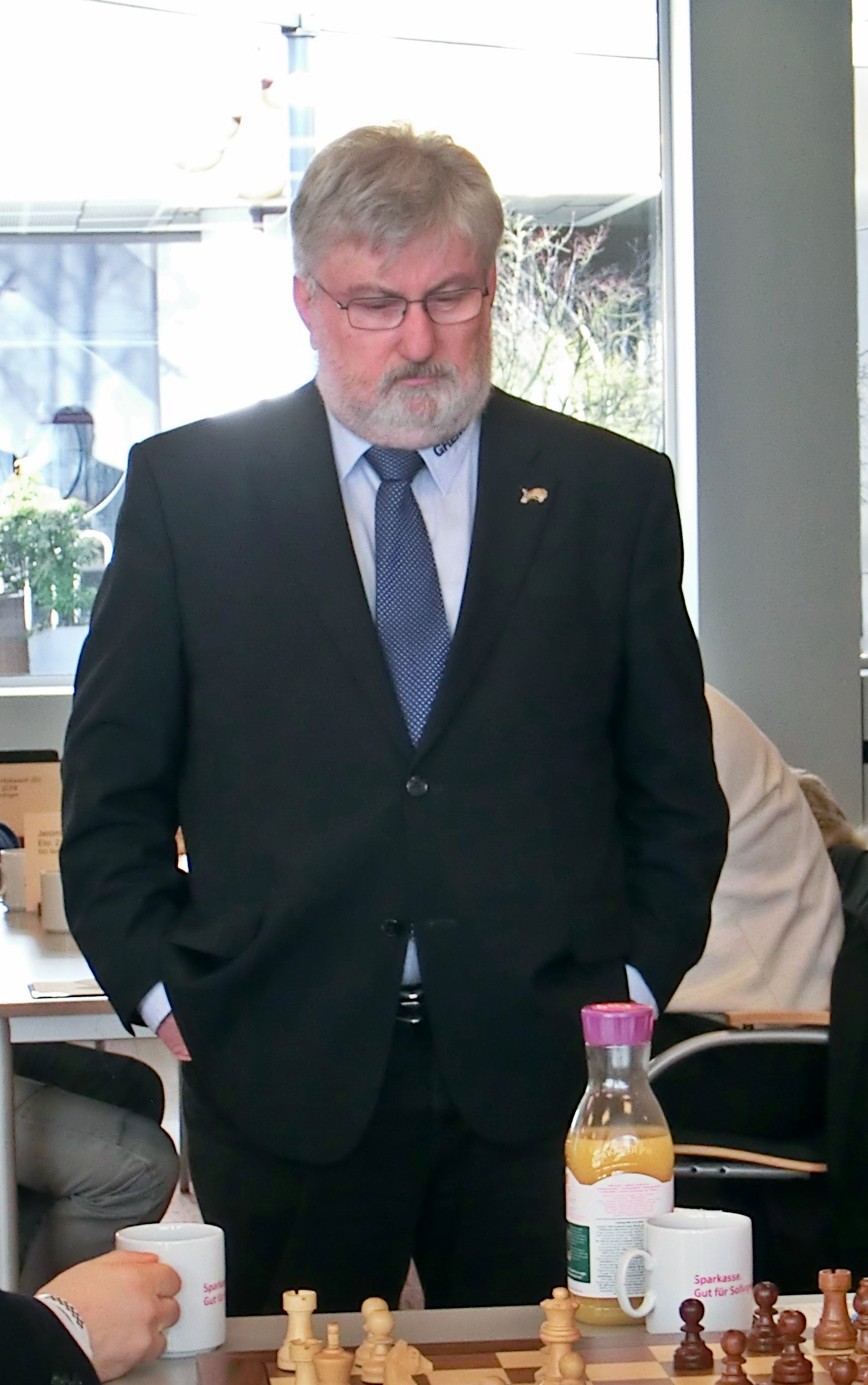 Hans-Walter Schmitt, chess organizer from Germany